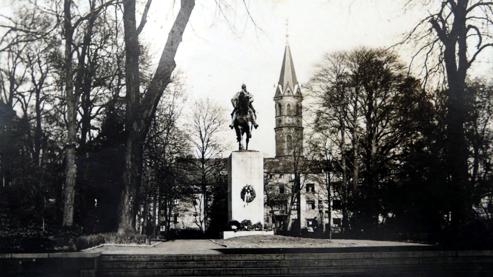 Kaiser-Wilhelm-Denkmal, sculpture by Gustav Eberlein, Elberfeld (Wuppertal, Germany)